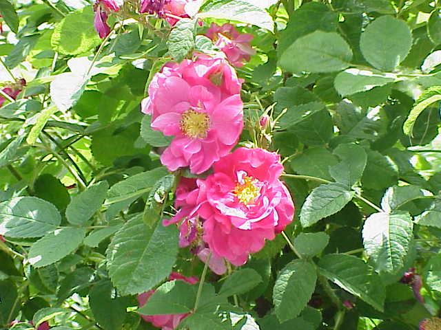 Species: Rosa sp. Family: Rosaceae Cultivar: Portland-Rose, Portland Image No. 228